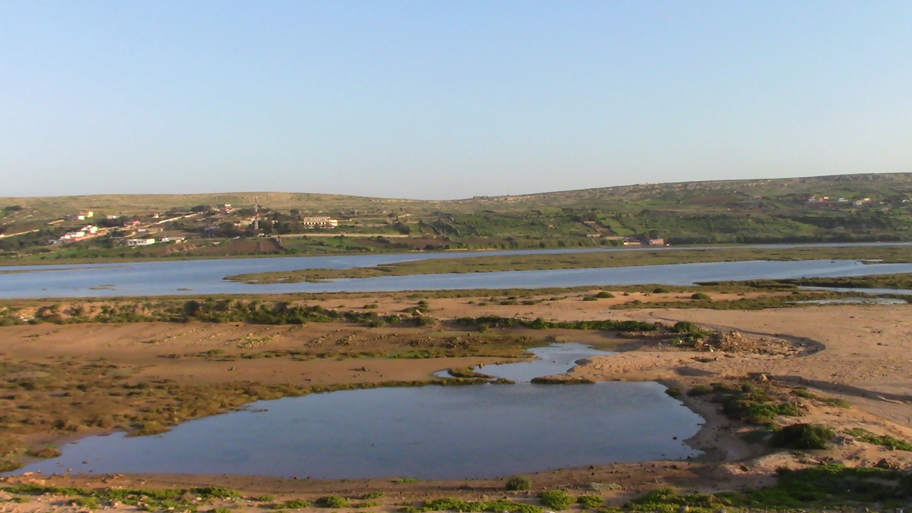 Sidi Moussa Lagoon Nature Preserve - View